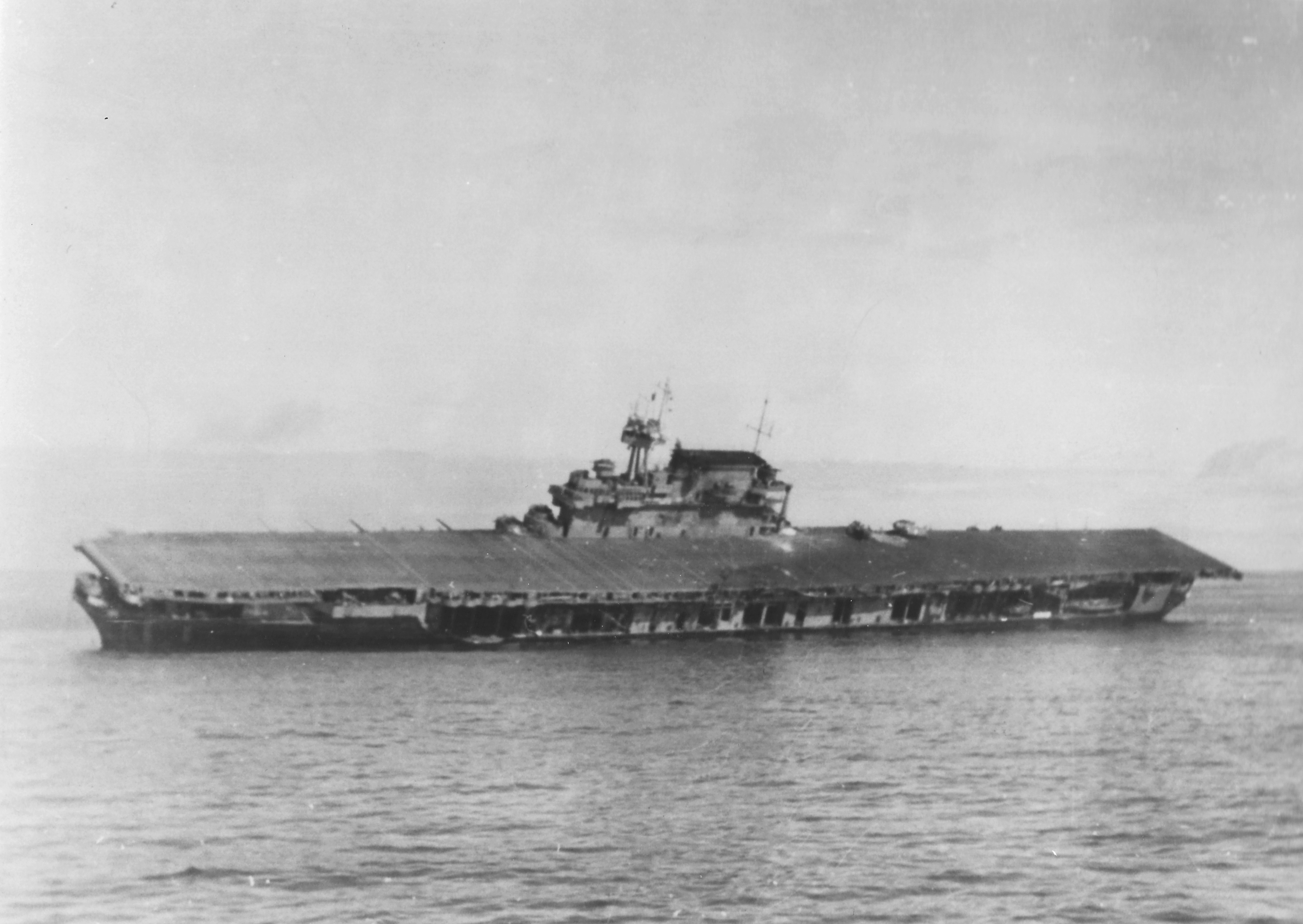 The U.S. Navy aircraft carrier USS Yorktown (CV-5) lists heavily after she was abandoned during the afternoon of 4 June 1942. Note that two Grumman F4F-4 Wildcat fighters of Fighting Squadron 3 (VF-3) are still parked on her flight deck, aft of the island.